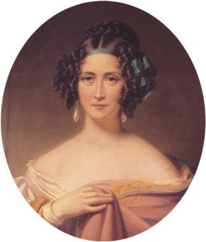 Mary Anne Lewis (1792-1872), later Mary Anne Disraeli, wife of Wyndham Lewis and subsequently of Benjamin Disraeli. Portrait painted after her death, based on a miniature in Disraeli's possession. She is depicted as a young woman, probably in the 1820s.